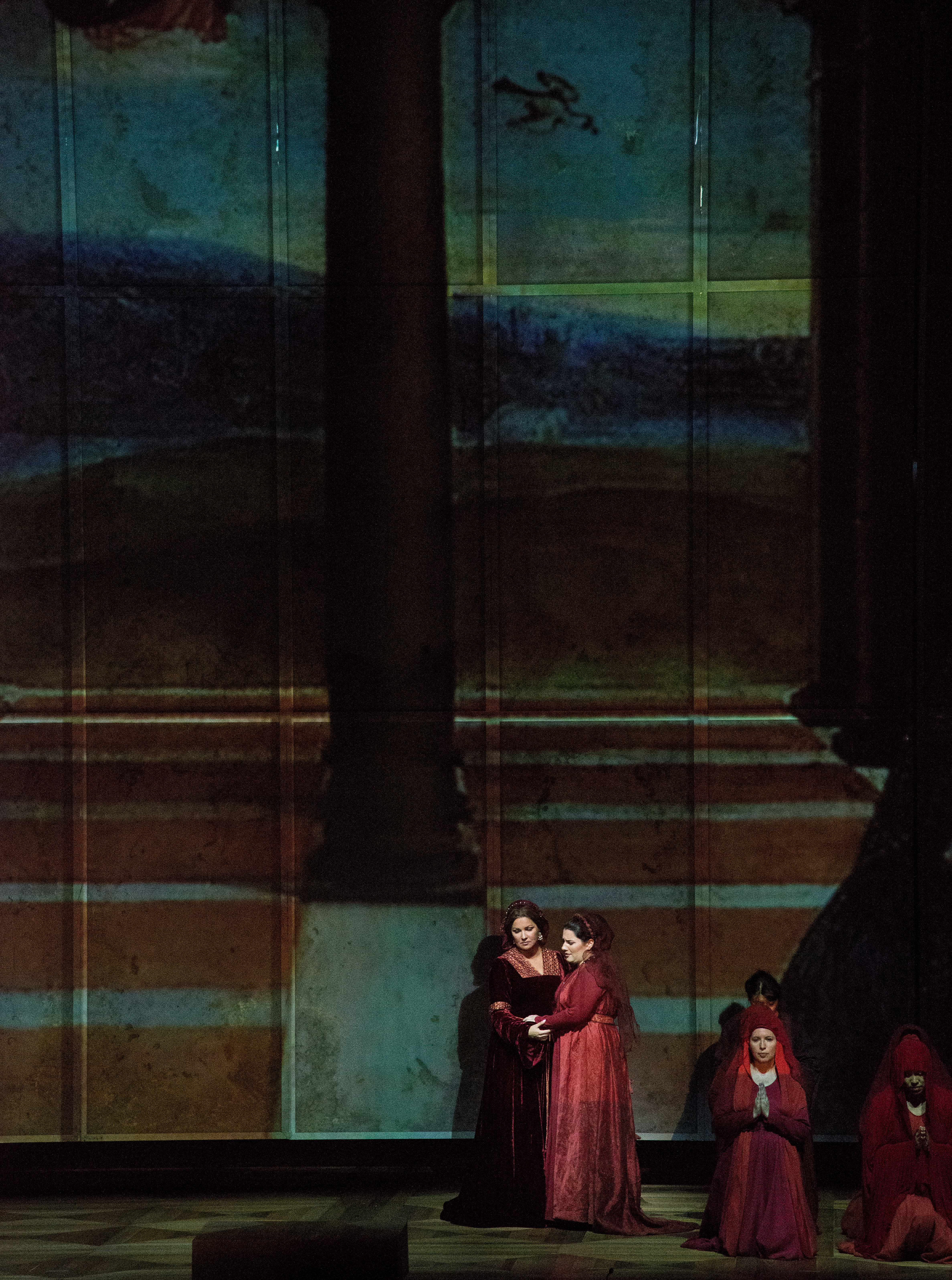 Il trovatore, Salzburg Festival 2014, with Anna Netrebko (Leonora), Diana Haller (Ines) and the Chorus of the Vienna State Opera